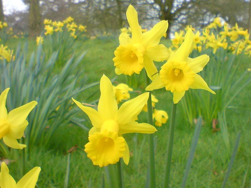 Narcissus pseudonarcissus flowers in Kew Gardens, England.